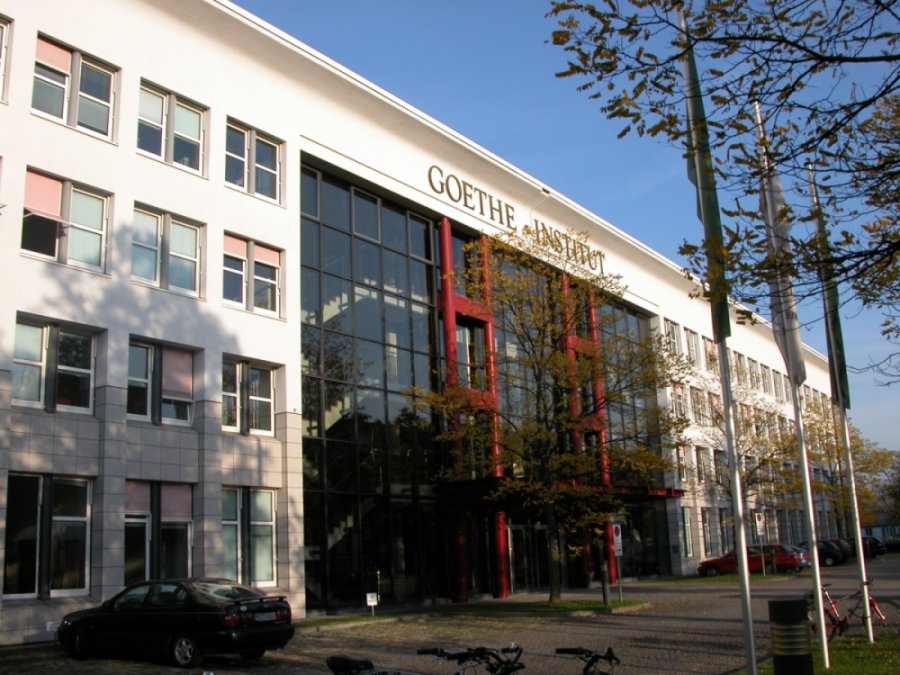 Goethe-Institut: Central Office Munich.